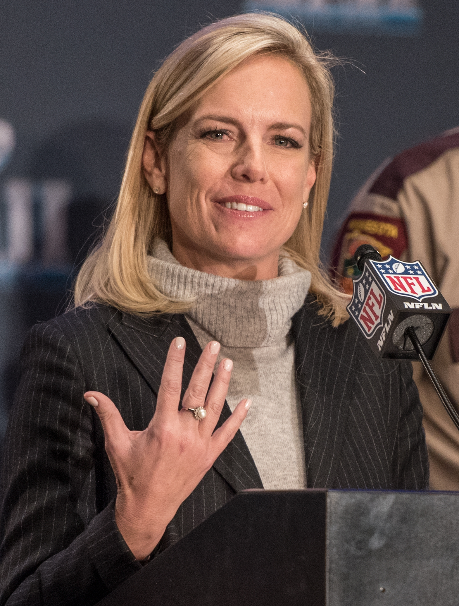 DHS Secretary Kirstjen Nielsen was on hand to speak at the NFL Public Safety press conference in Minneapolis.